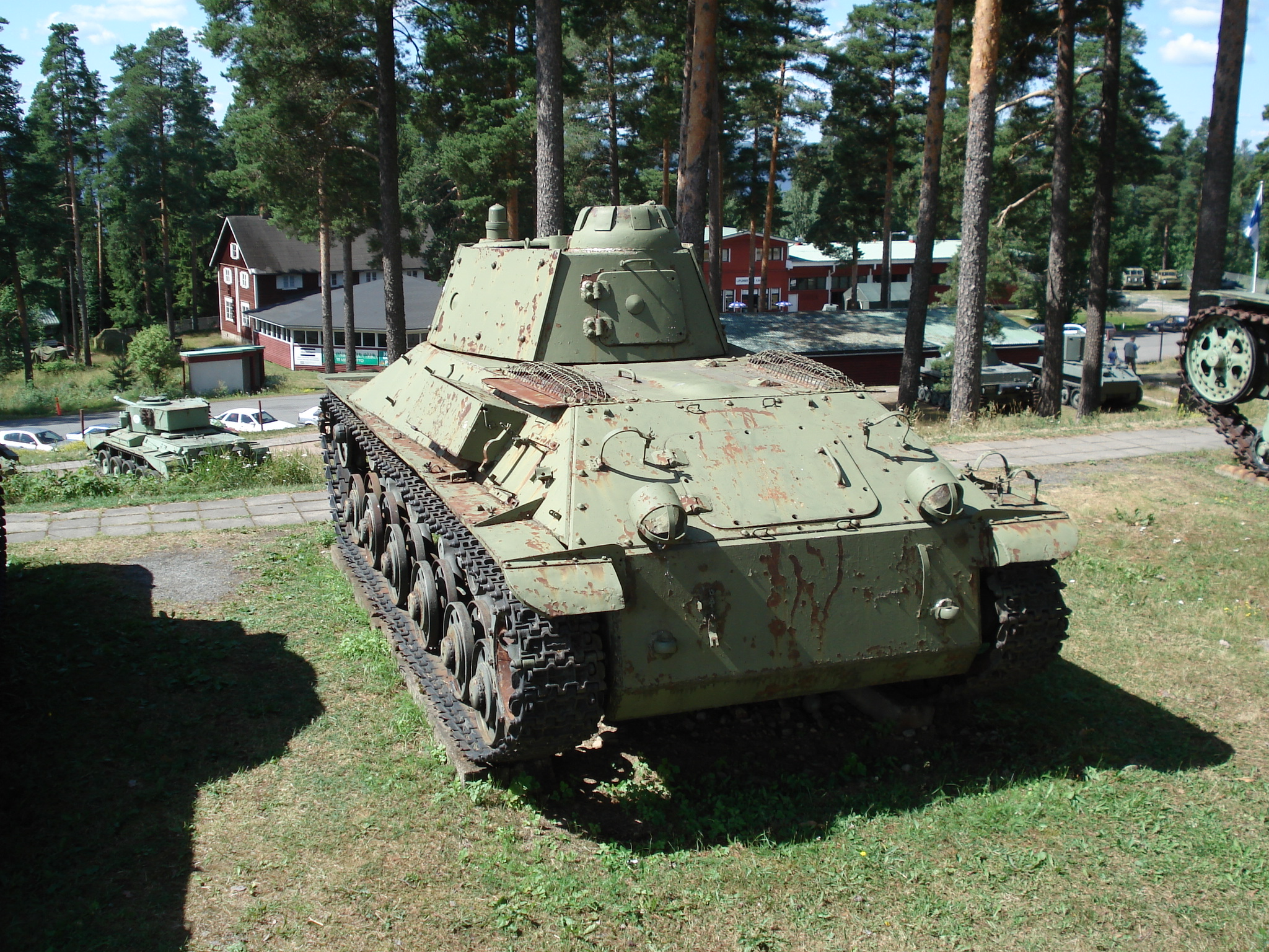 Soviet T-50 light tank, with Finnish markings, displayed in Finnish Tank Museum (Panssarimuseo) in Parola. Photo taken on July 14, 2006. Source: Photo by me, User:Balcer.